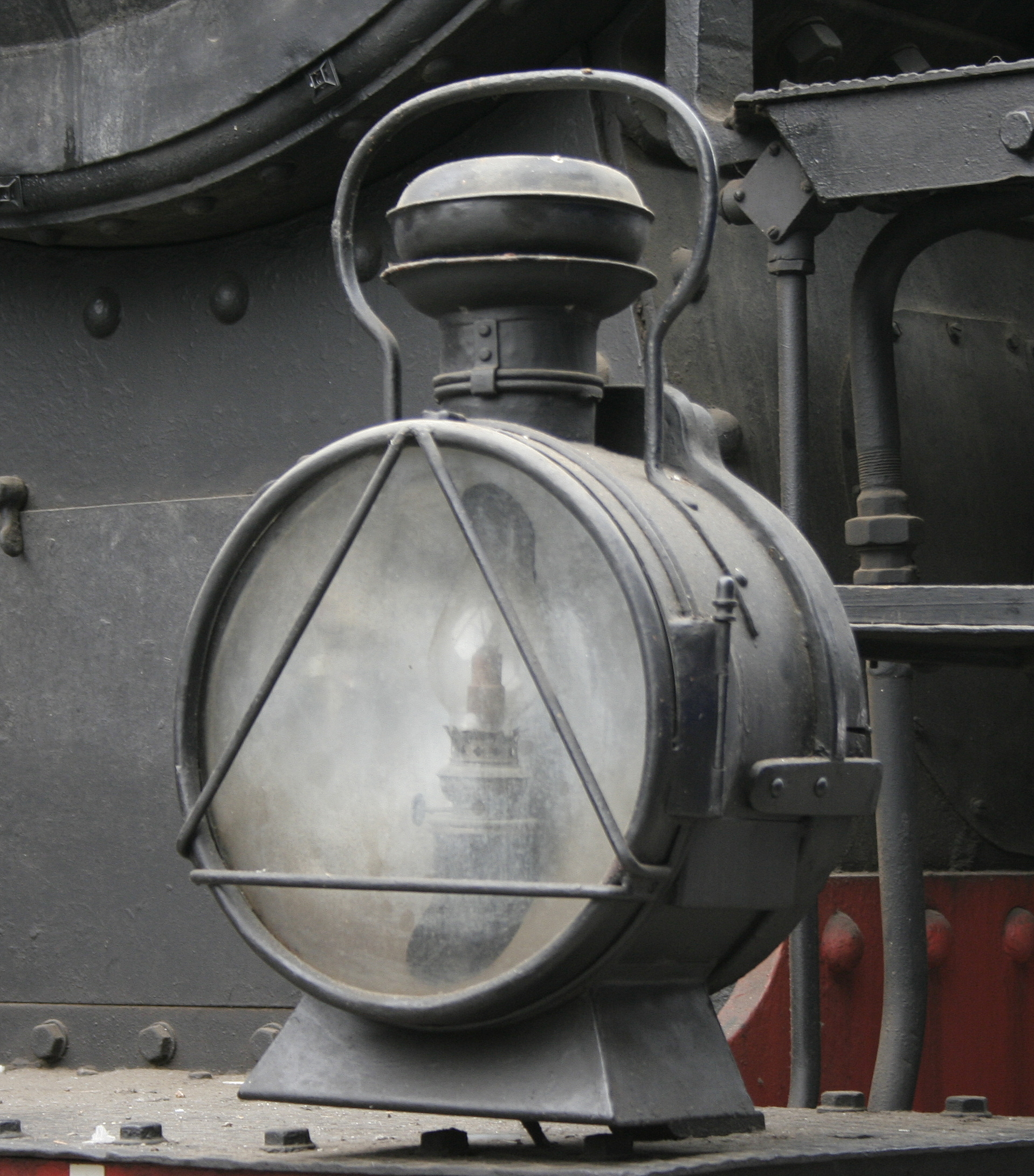 Front light of locomotive FS 744